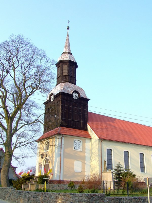 Church in Trzebiez (1745), Poland